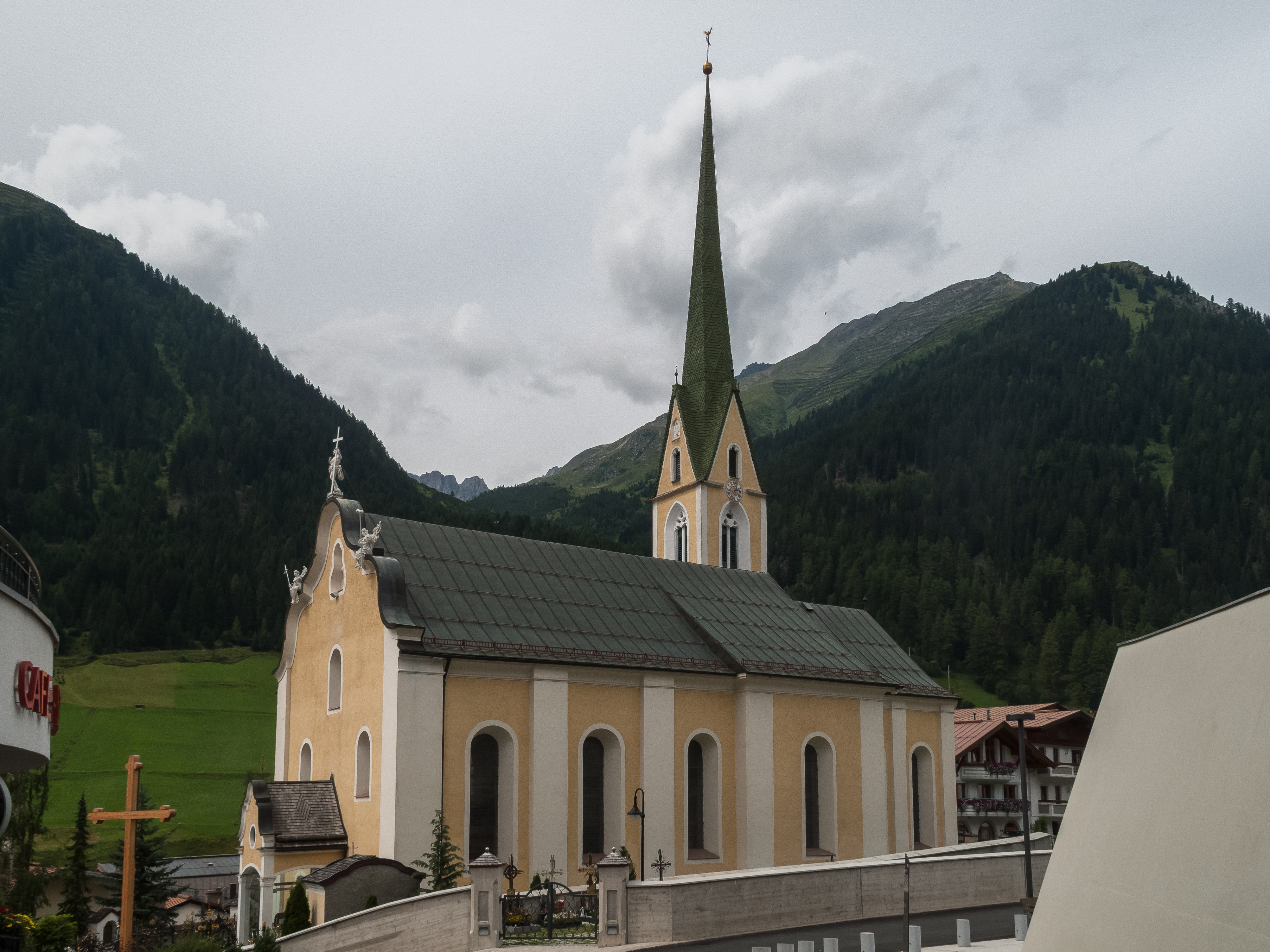 Ischgl, church: katholische Pfarrkirche heilige Nikolaus